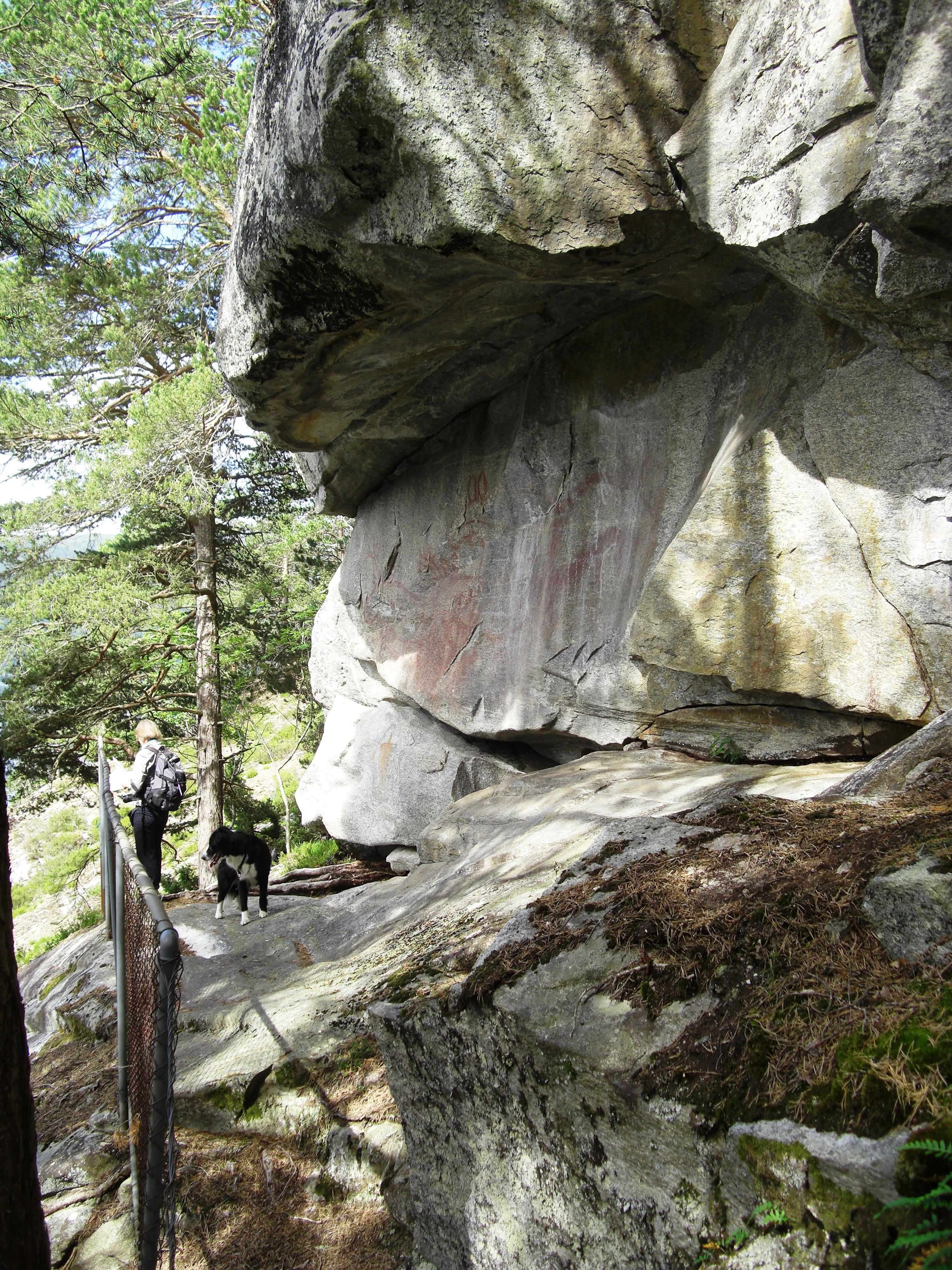 Rock paintings at Hindhammar